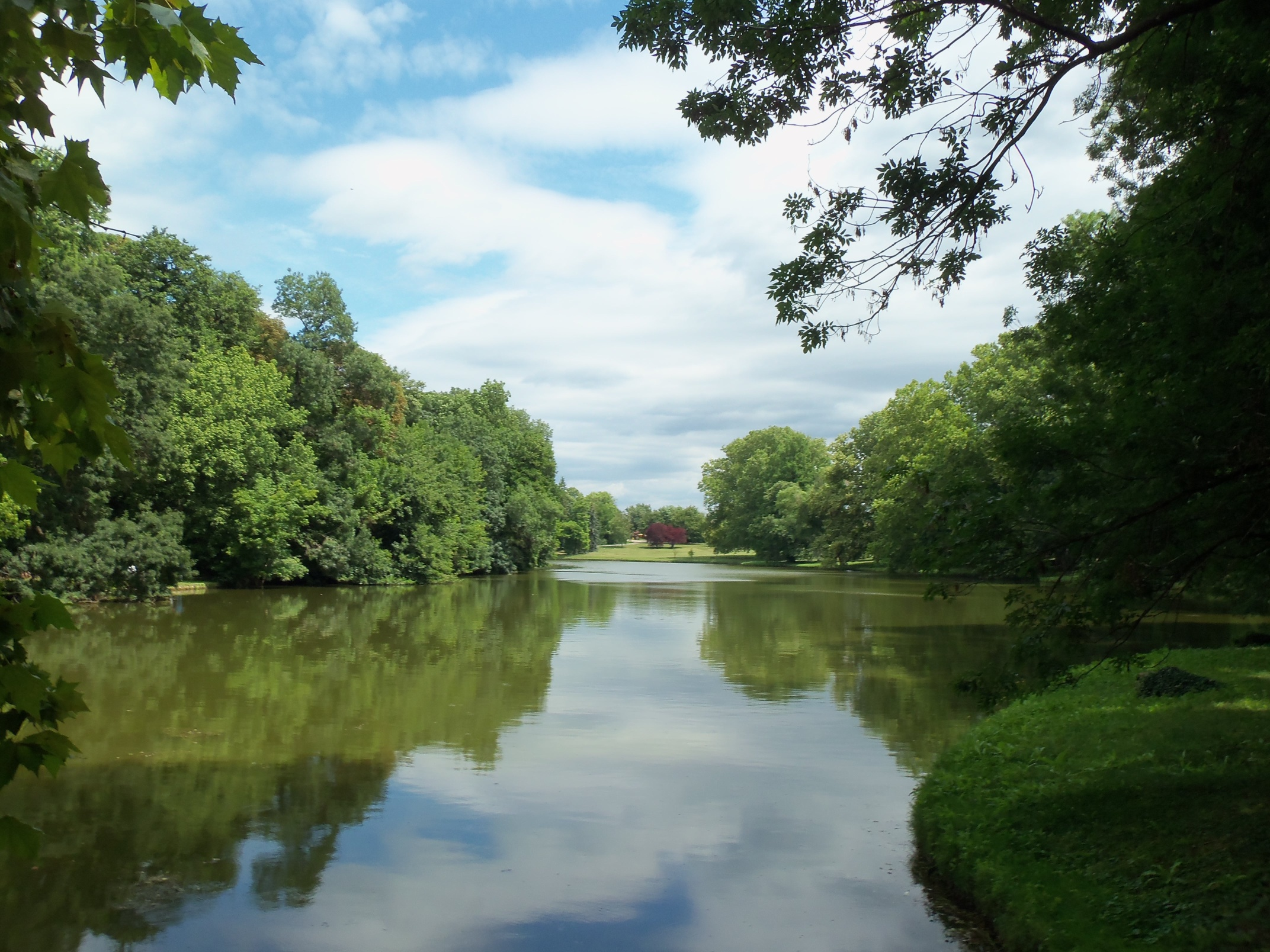 The park of Brunszvik Mansion, Martonvásár, Hungary